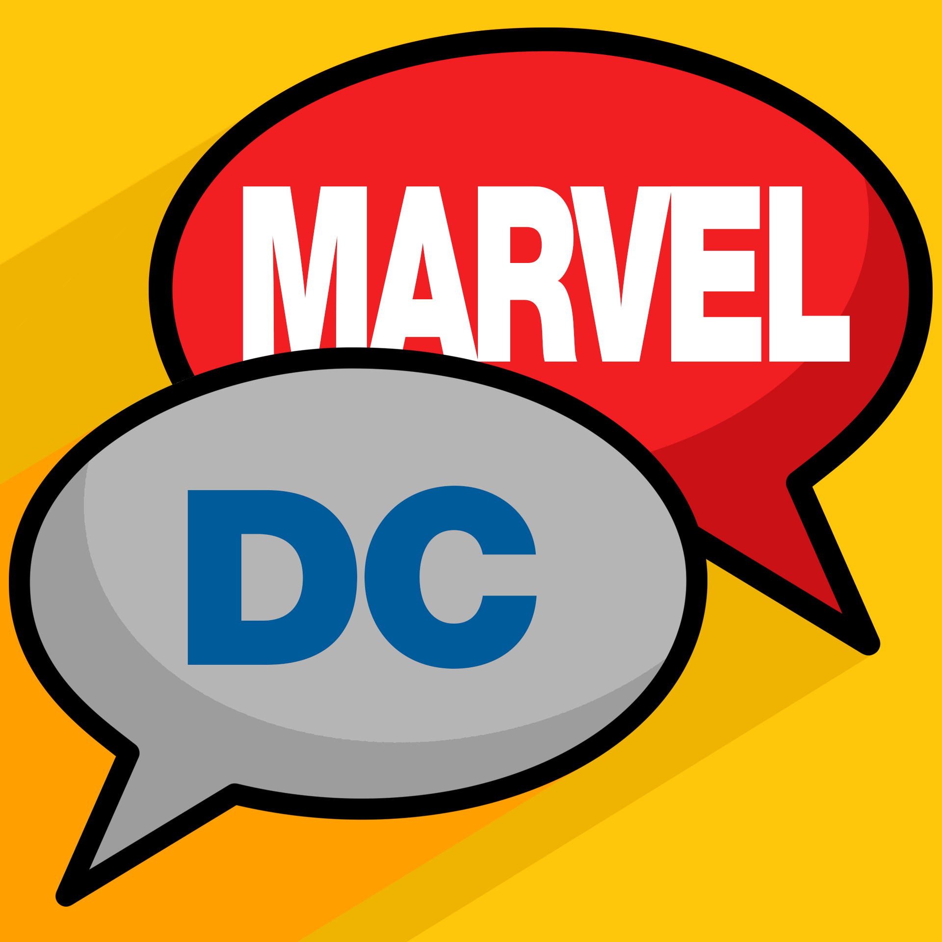 A Speech balloon filled with the word «Marvel» and «DC»